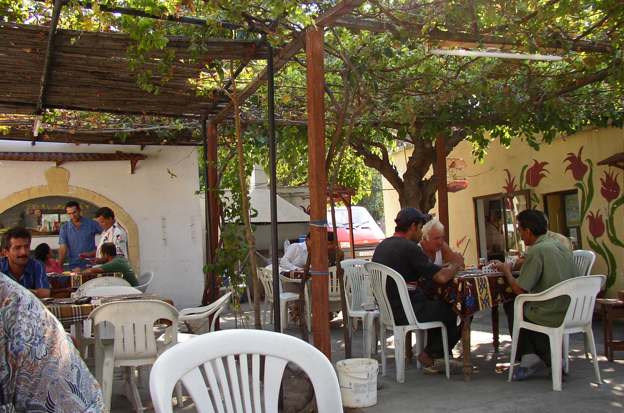 Lapta (North Cyprus) meeting place (2003)